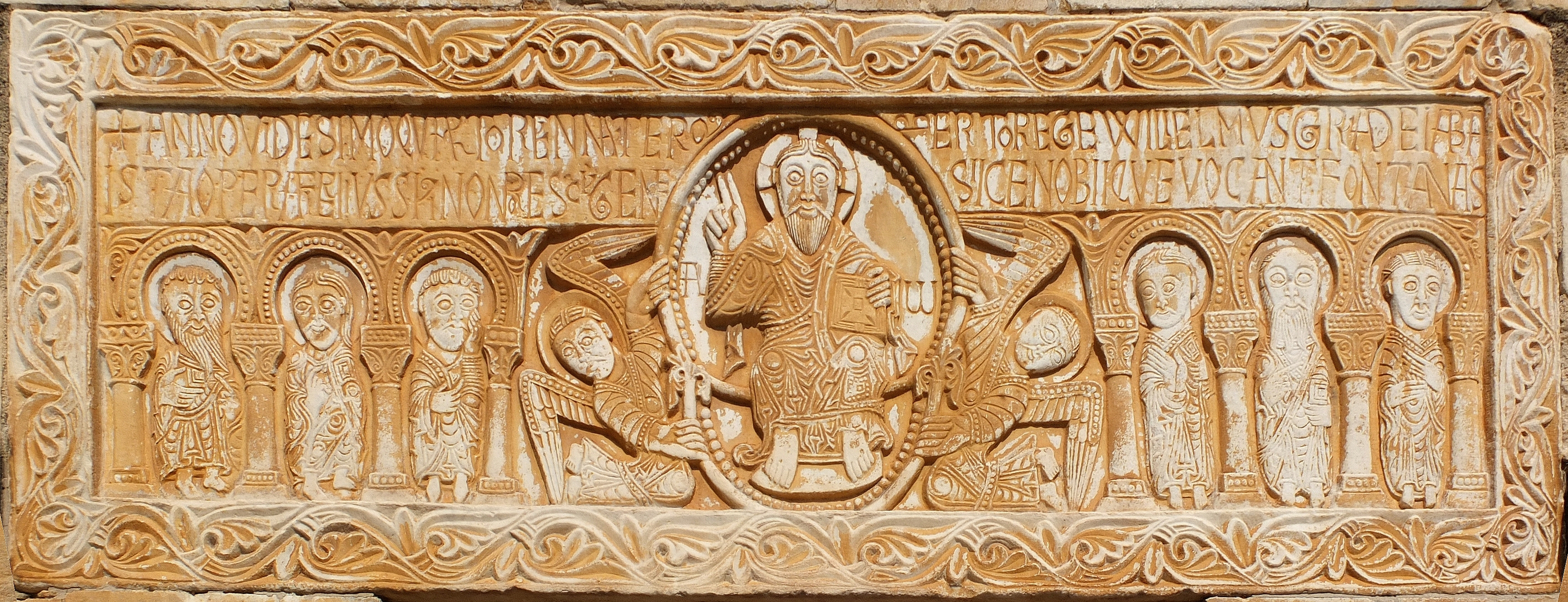 Lintel (11th century) of the main portal of "Église Saint-Michel" in Saint-Génis-des-Fontaines, France. Ministère de la Culture (France): Base Mémoire: APMH0101543